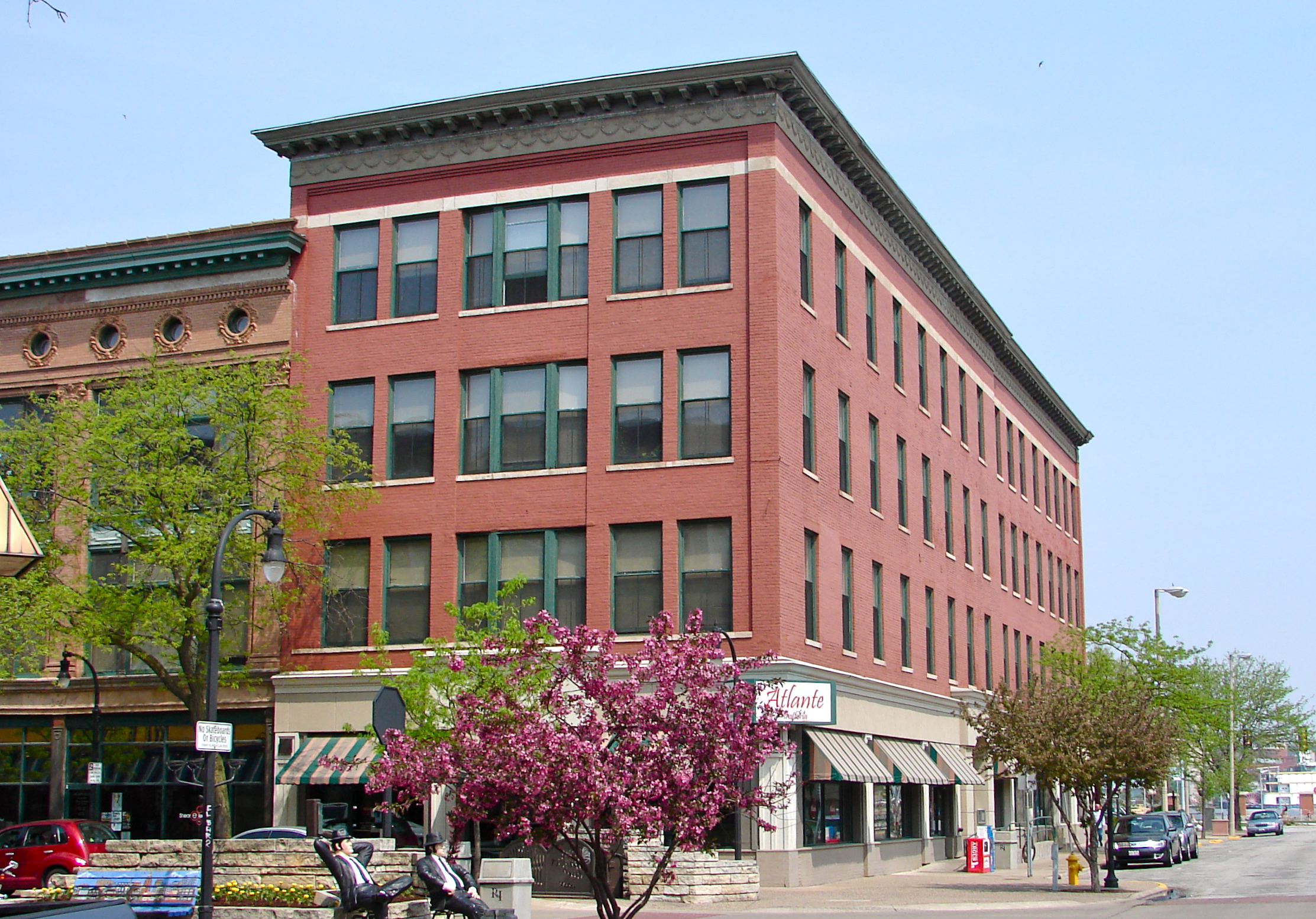 Peoples National Bank Building-Fries Building on the NRHP since November 22, 1999 1729–1731 and 1723-1727 2nd Ave., Rock Island, Illinois. Fries Building to the left, Peoples National Bank to the left. Two adjoining commercial buildings in downtown Rock Island. Both were built in the Classical Revival style in the late 19th century.